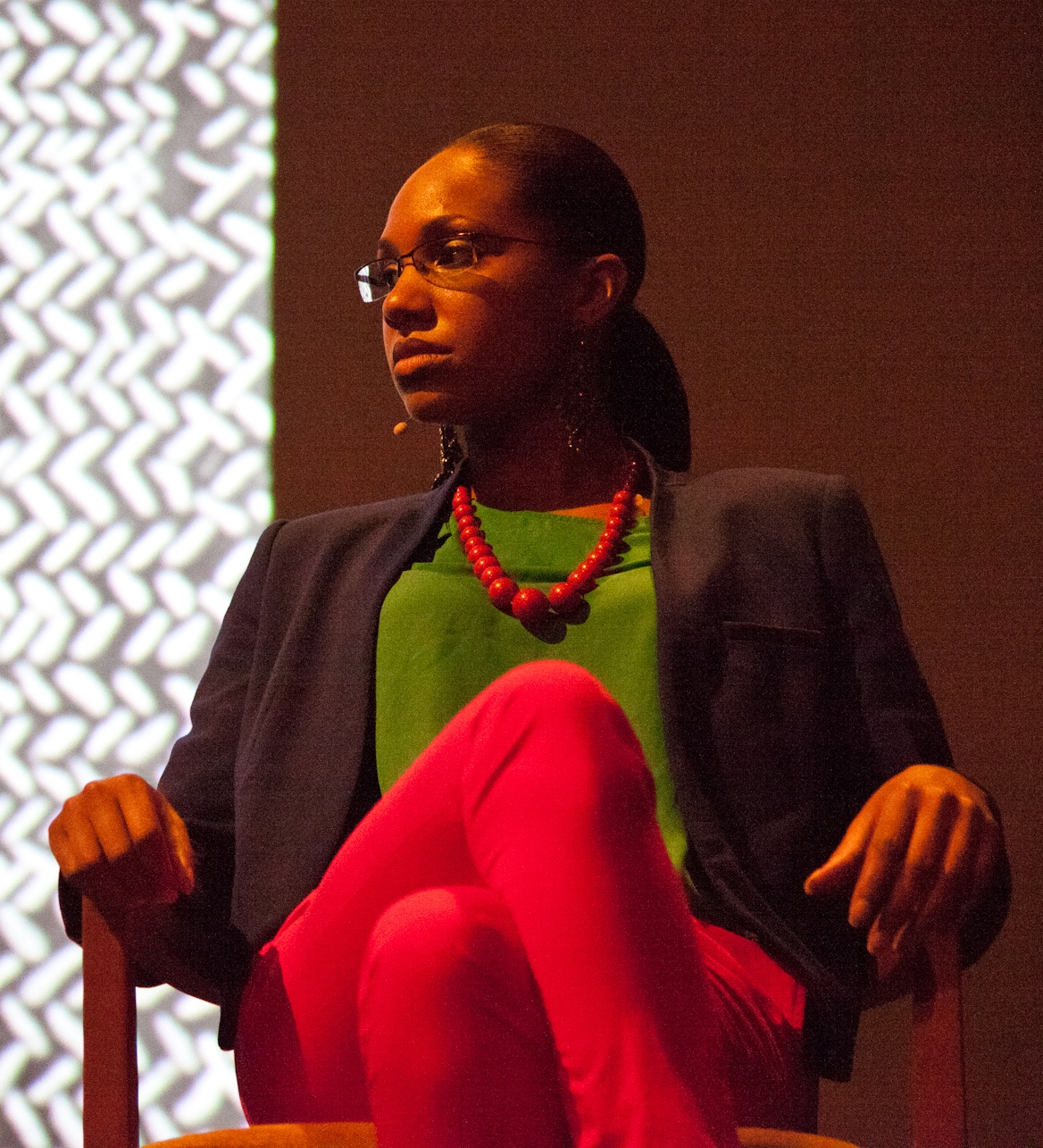 LaToya Ruby Frazier at the 2011 Look 3 Conference